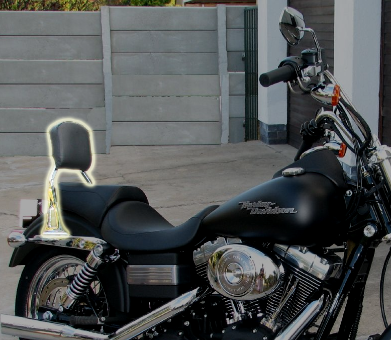 The sissy bar of a motorcycle.